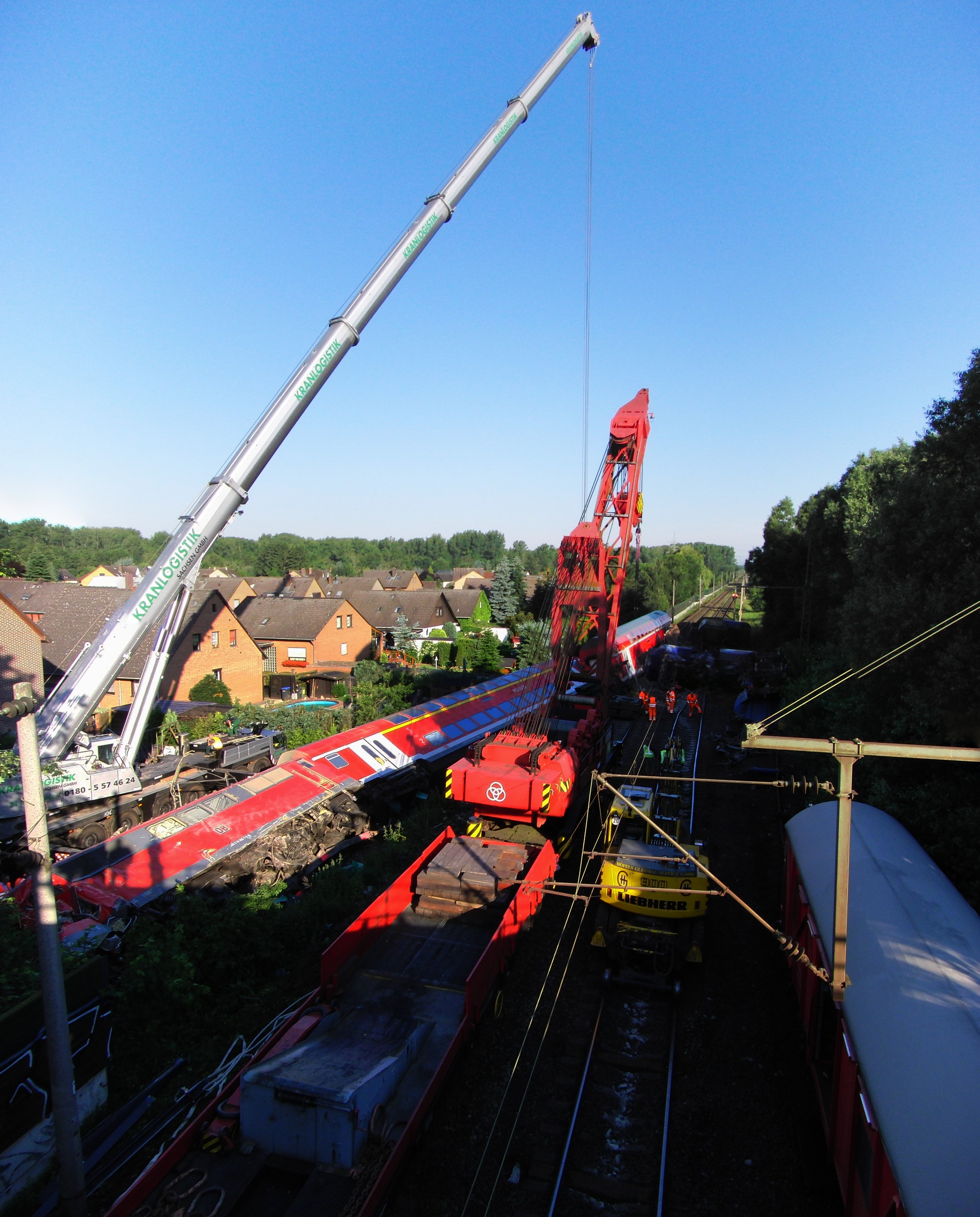 Train accident at Peine-Horst on 2010-06-16, view to the West